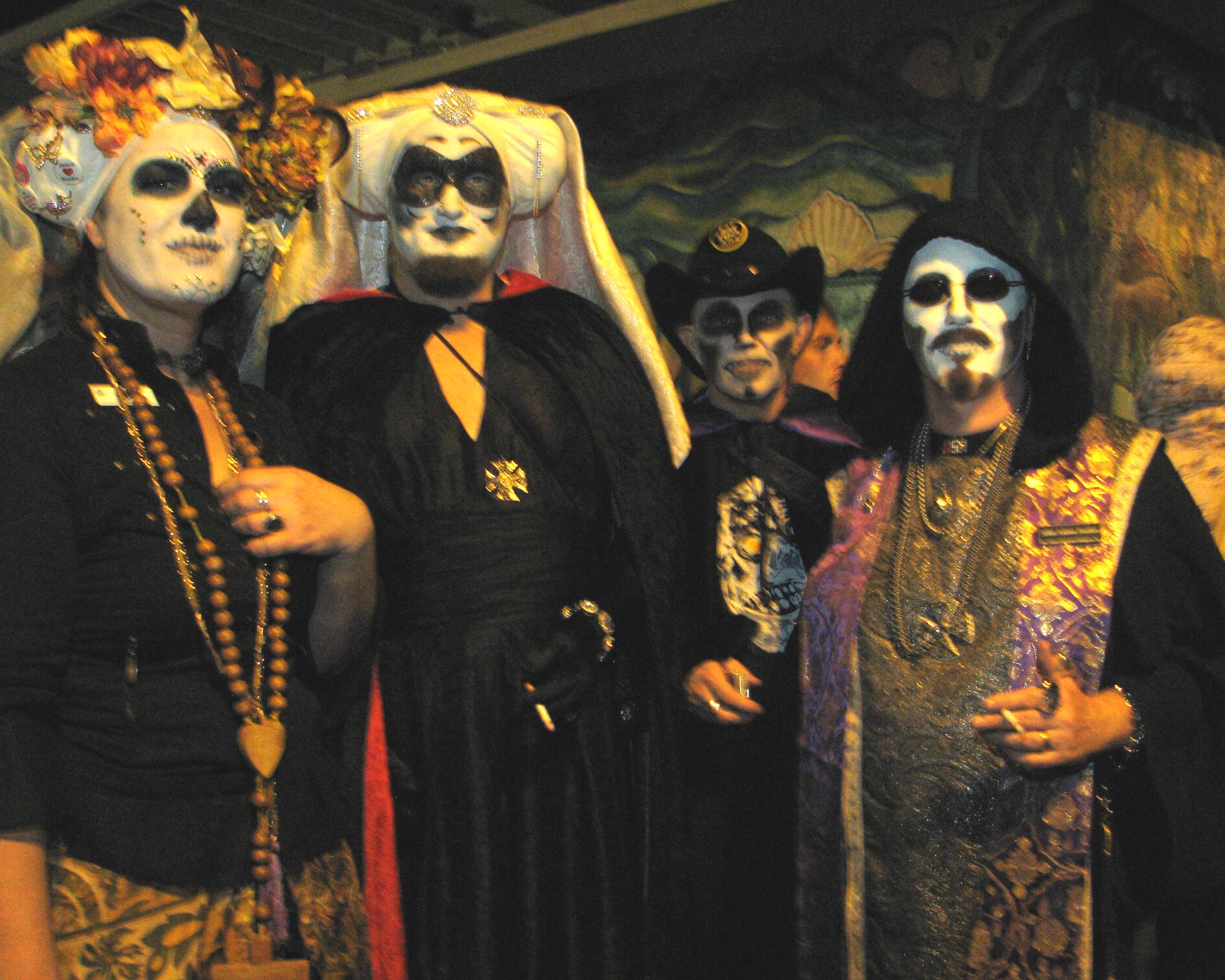 Day of the Dead party, San Francisco